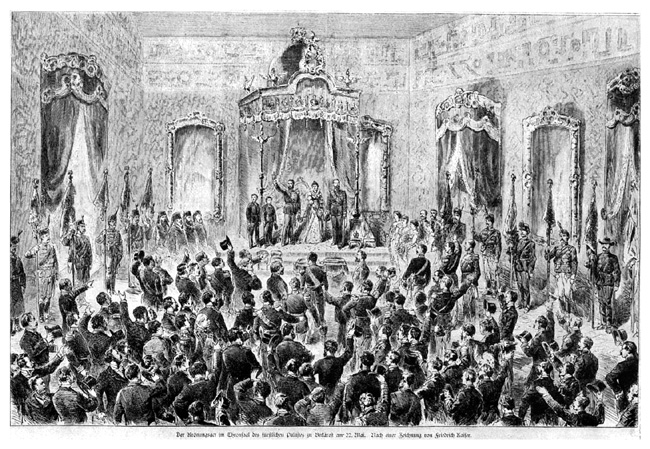 Crowning of Carol I